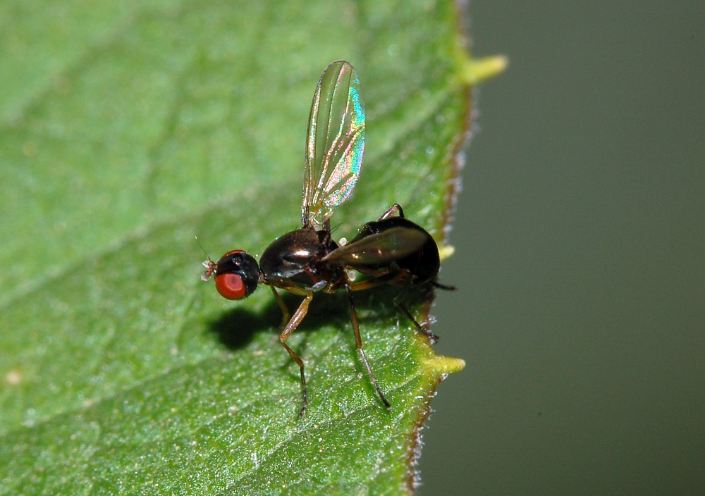 Sepsidae species, Nied, Frankfurt/Main, Germany